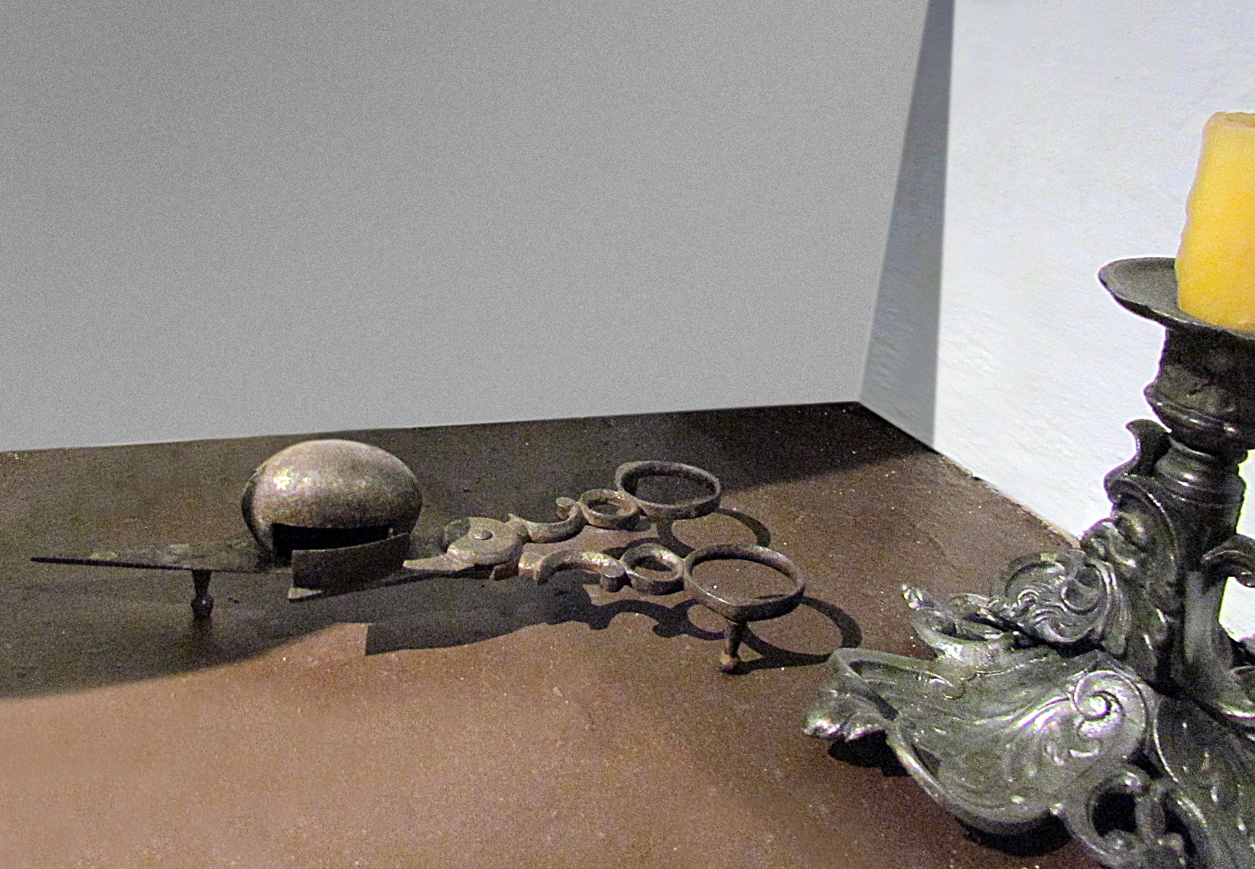 "Mum" scissors (candle wick trimmer) -Vuk and Dositej museum, Belgrade